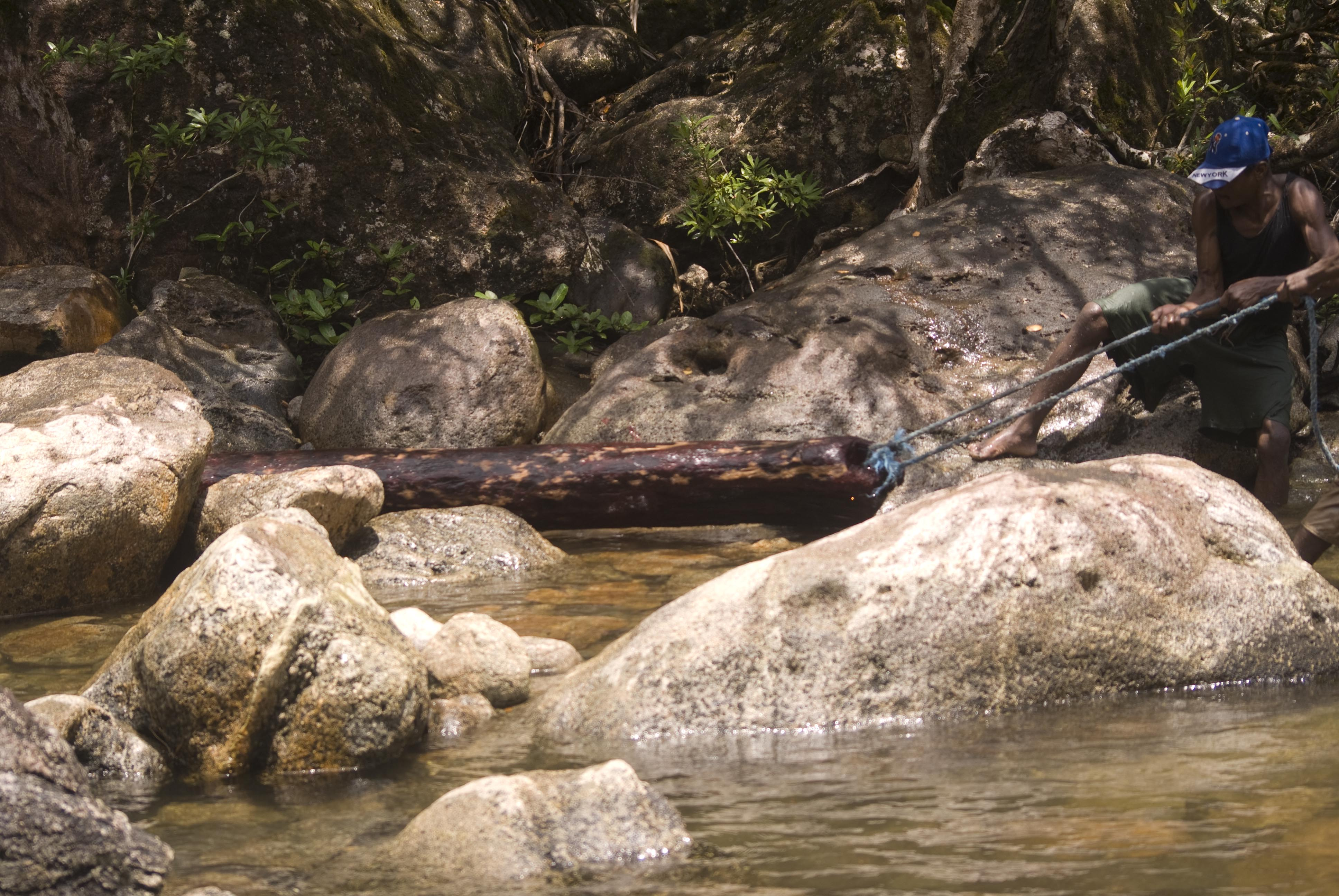 Illegal harvesting of rosewood inside Masoala National Park (October 2009)